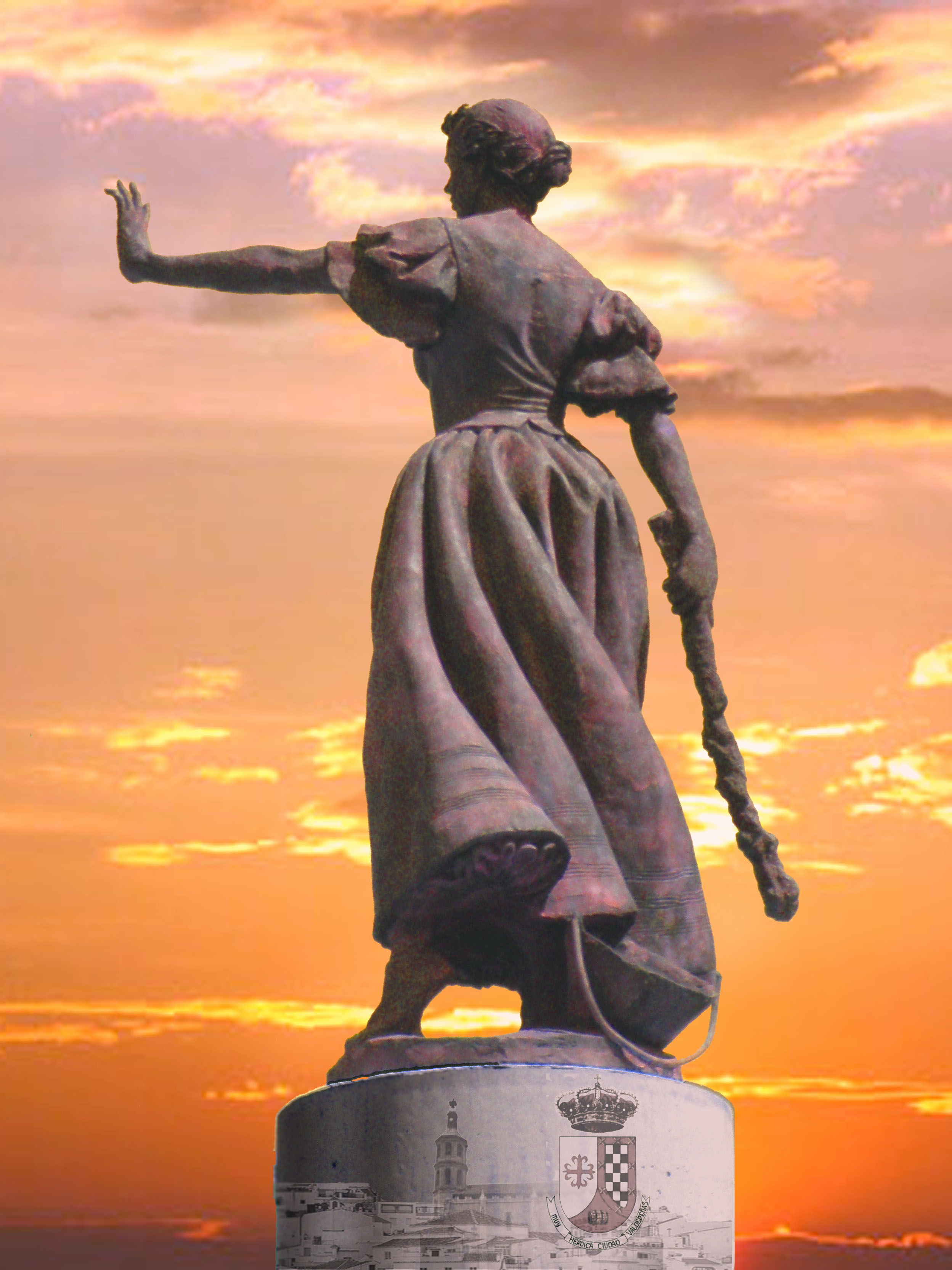 statue of "La Galana" in Valdepeñas (Spain) by the sculptor Javier Galán in 2008